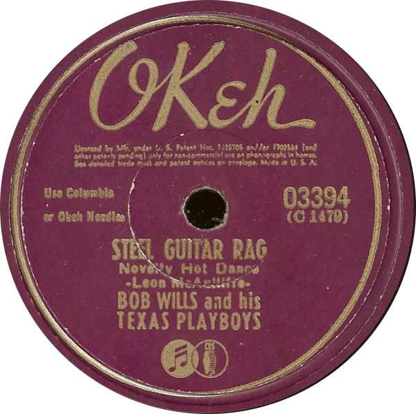 Released on Okeh Records in 1937